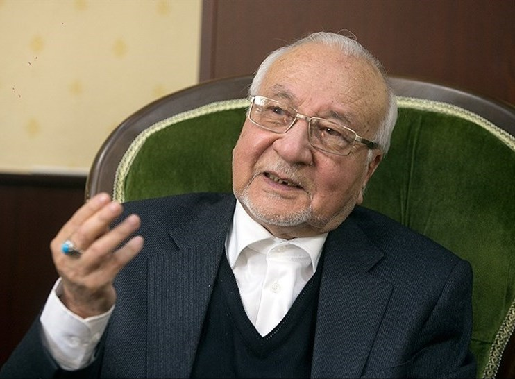 Ismael Qasim Yar